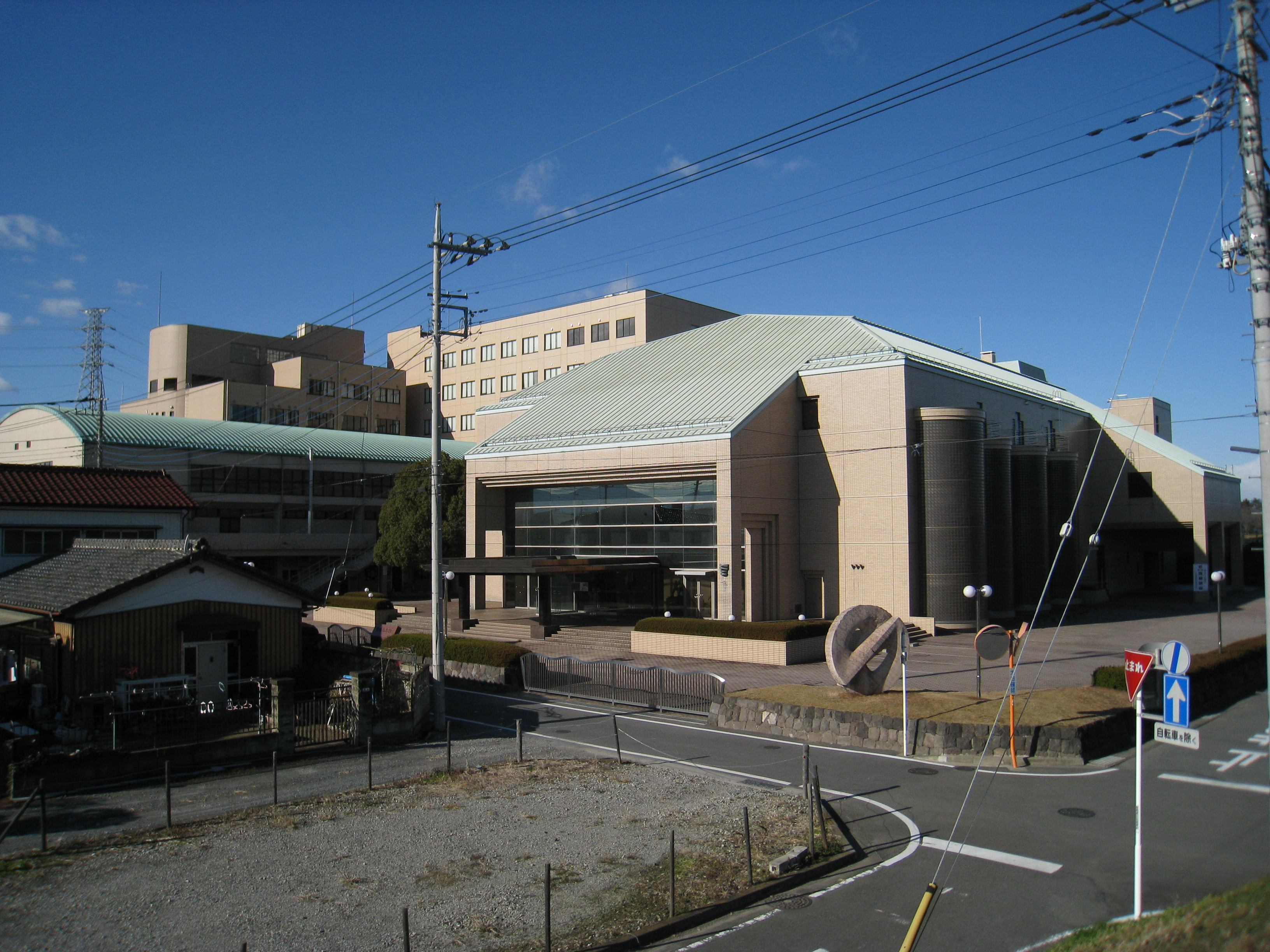 Jobu University Takasaki Campus.